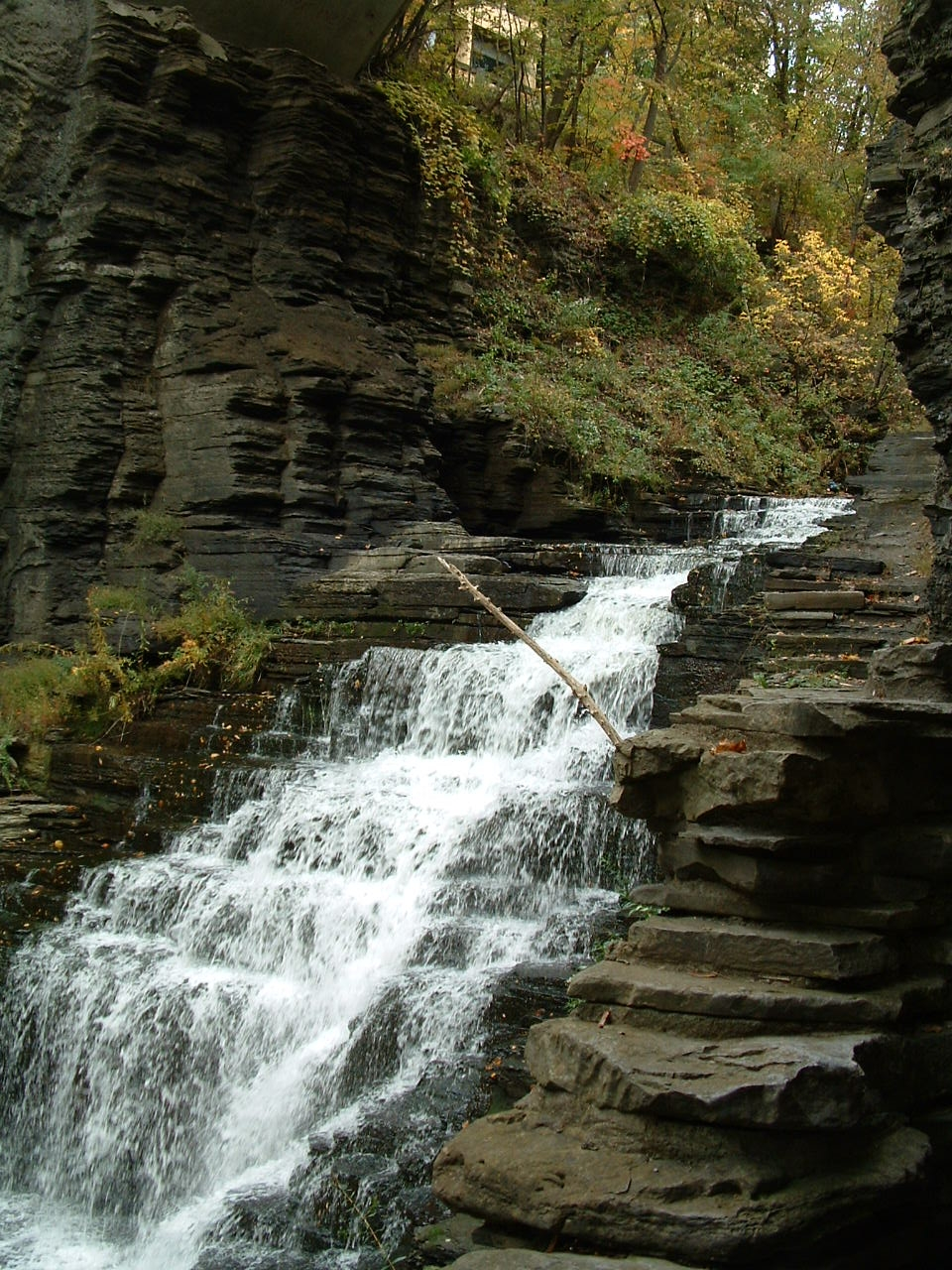 Cascadilla Gorge, one of the gorges and waterfalls on the Cornell campus